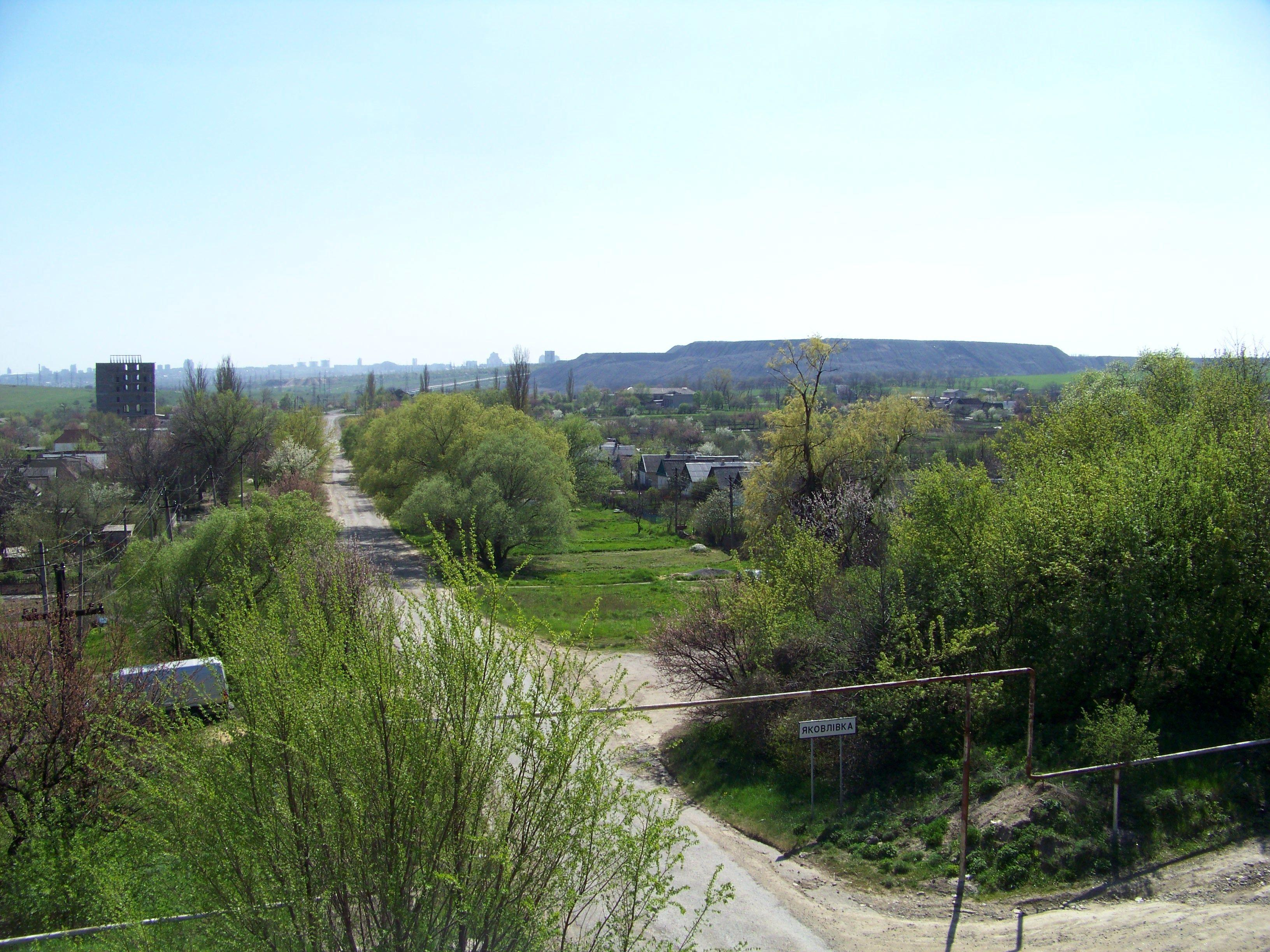 Yakovlivka village, Yasynuvatska street. Ukraine.